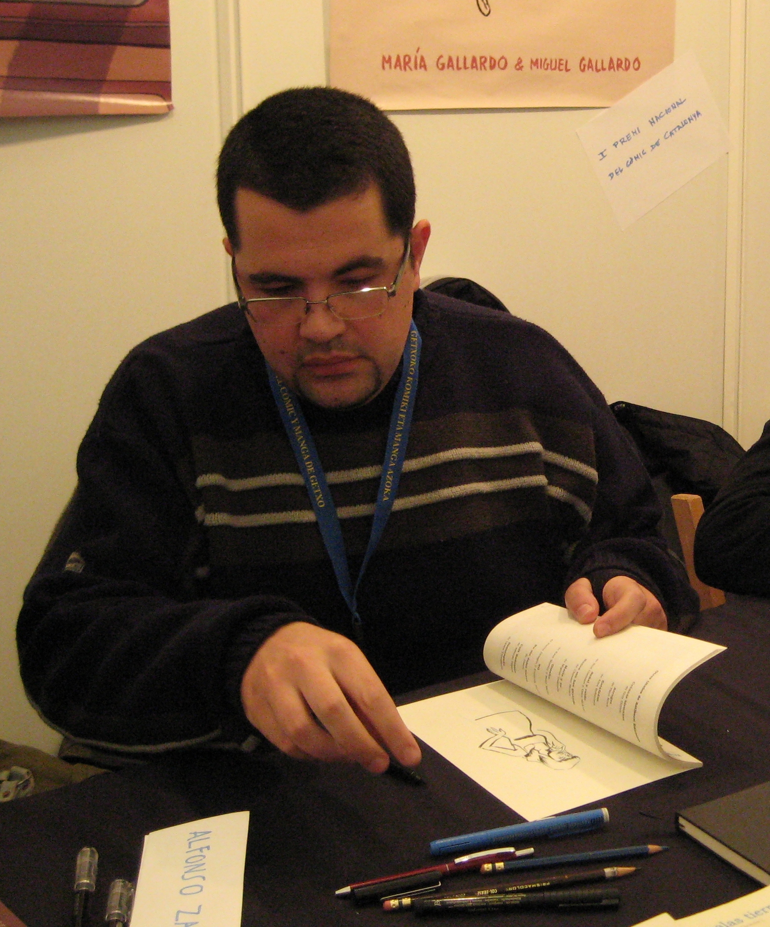 Spanish comic author Sergio Córdoba at Getxo Comic Con, 2008.